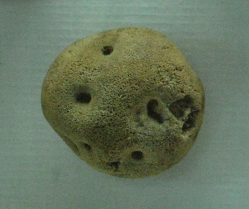 Ohrid round sponge (Ohridospongia rotunda)